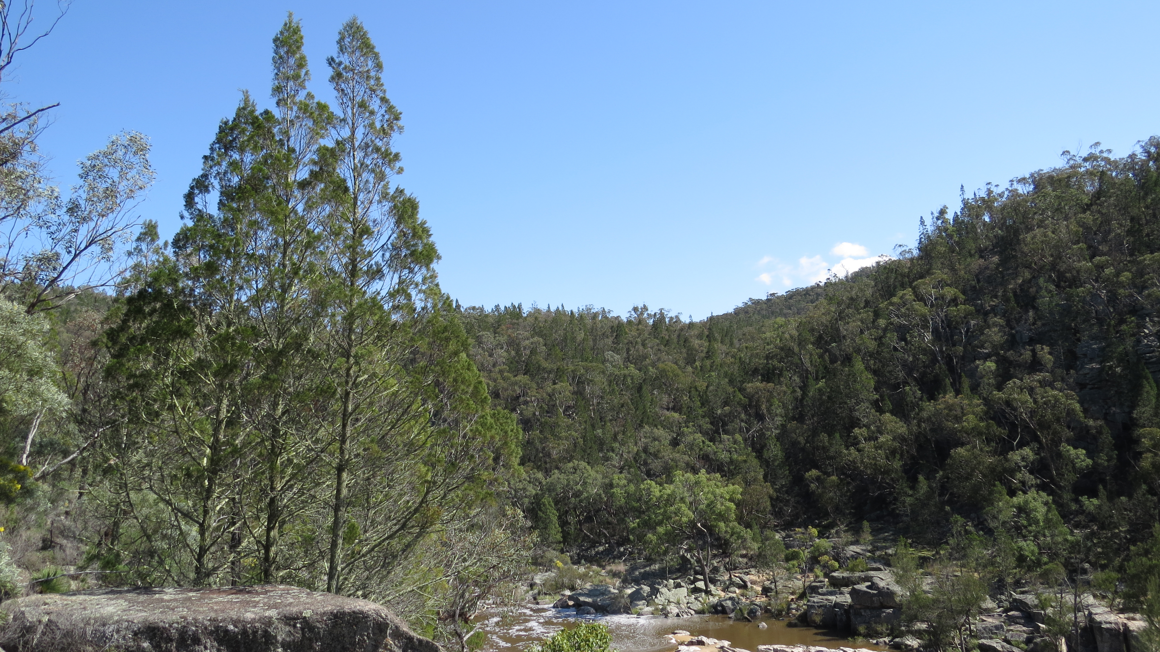 Black Cypress Pine, Callitris endlicheri. Muluerindie, Warrabah National Park, NSW, Australia, September 2016.